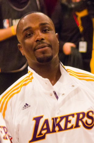 Derrick Caracter and Ron Artest of the Los Angeles Lakers. This file has been extracted from another file: Derrick Caracter Ron Artest.jpg